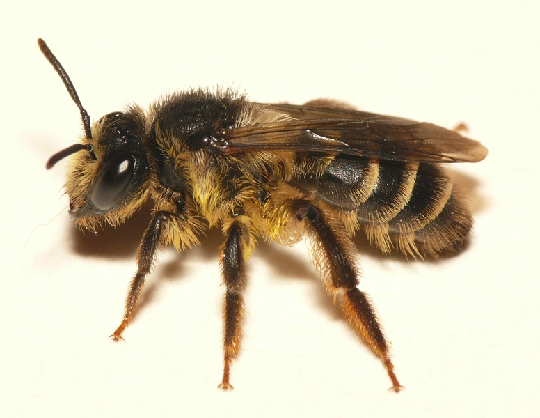 Andrena denticulata, female. Location: The Netherlands - Renkum - Telefoonweg